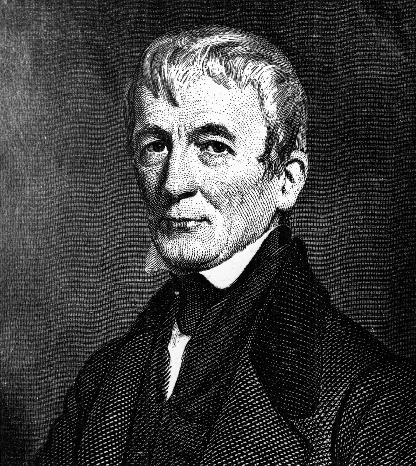 Patrick Tracy Jackson (1780-1847); early American businessman from Newburyport, Massachusetts involved with the establishment of the textile industry.